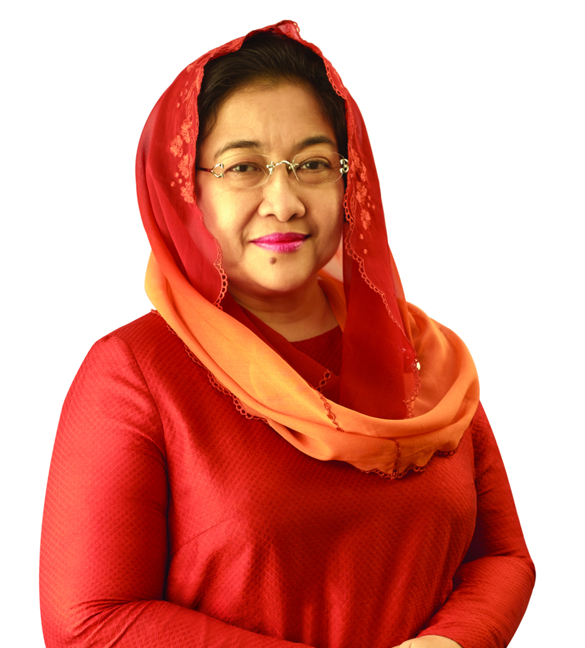 Republic of Indonesia